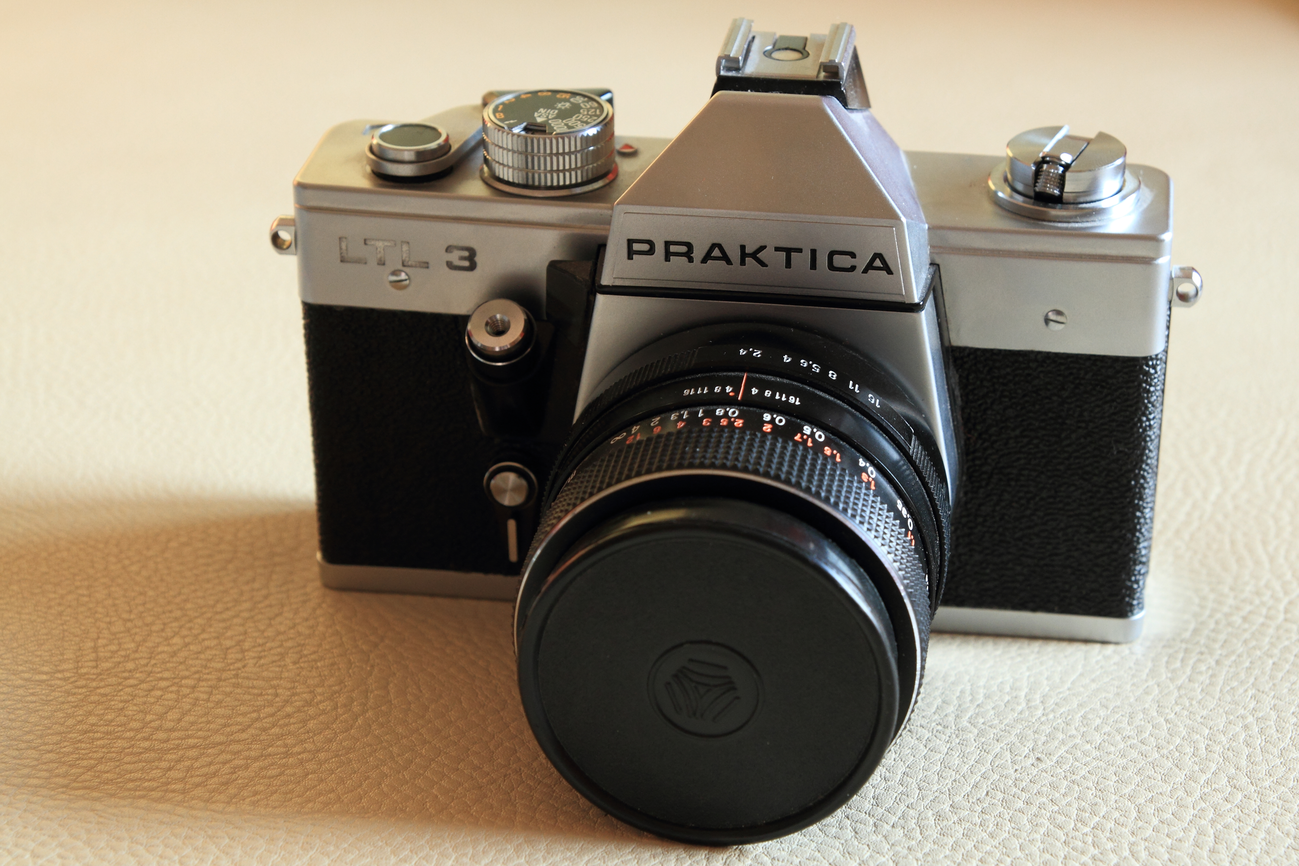 Single-lens reflex camera Praktica LTL3 with attached 50 mm lens